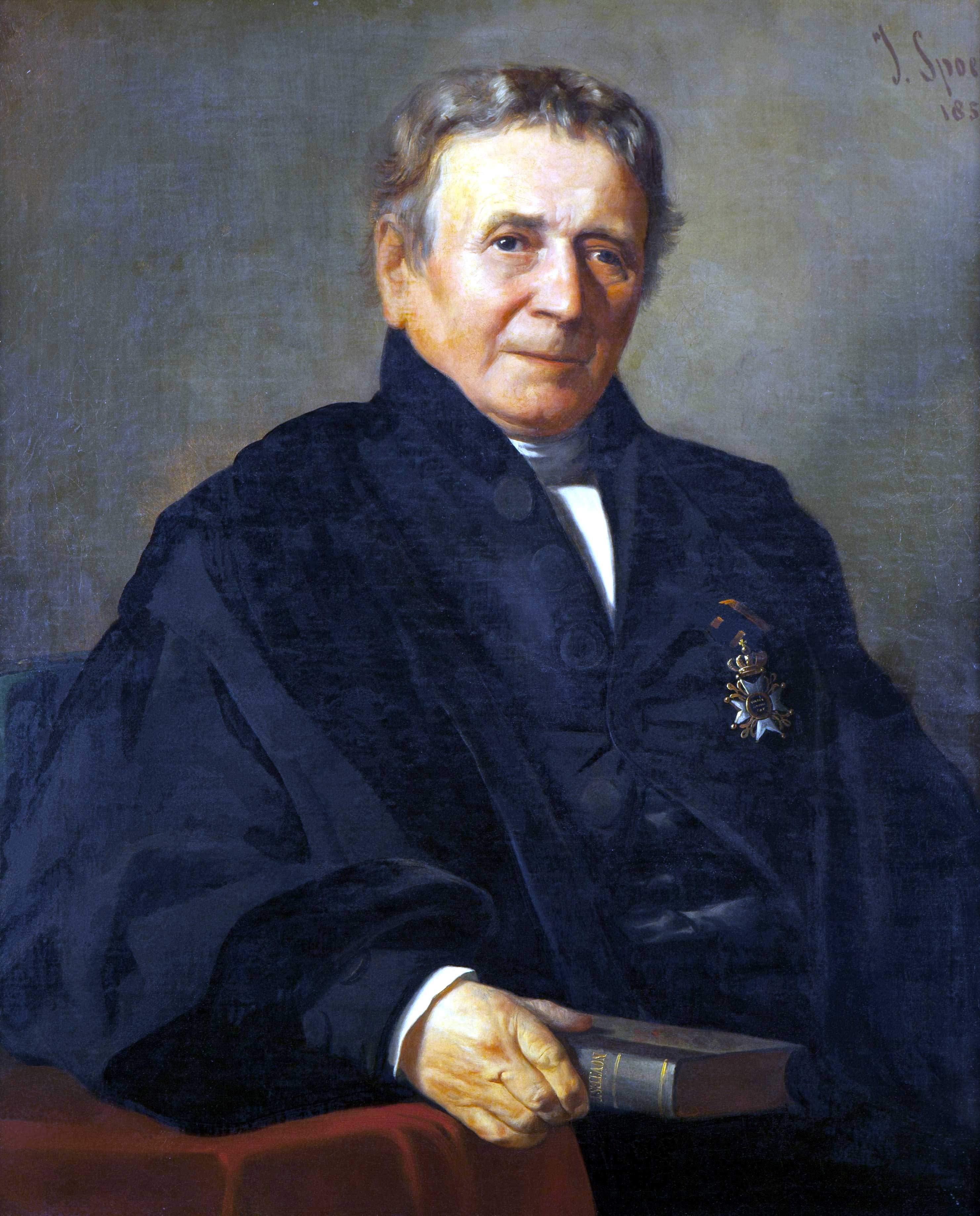 Wessel Albertus van Hengel (1779-1871), professor theology Leiden University